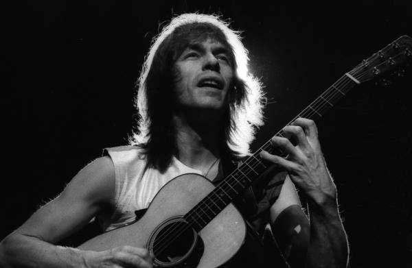 Yes - Steve Howe